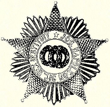 Star of the Order of the Two Sicilies